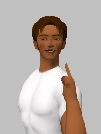 Touusu (A trademark pose of Japanese comedian Toshiaki Kasuga)